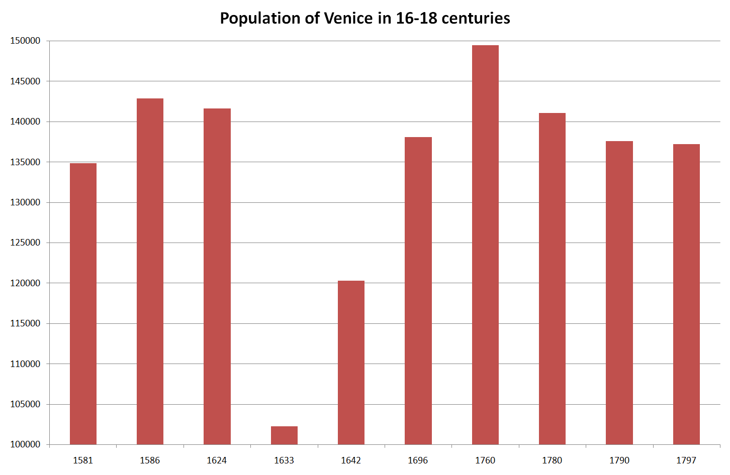 Population of Venice in 16-18 centuries